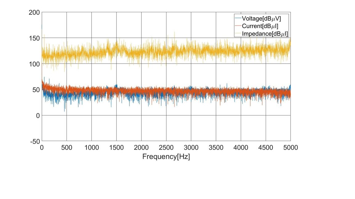 Conducted Emissions from a commercial DC buck converter studied as a 'black box' model.